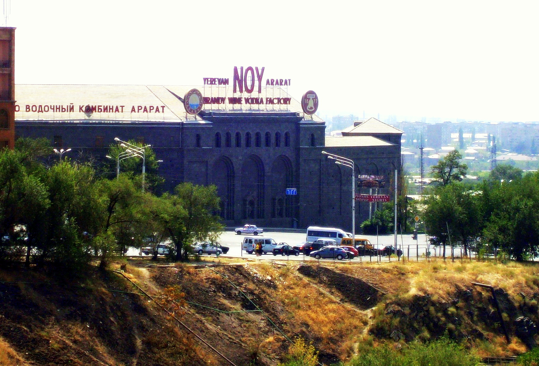 Picture taken by myself on 03 September 2009 in Yerevan